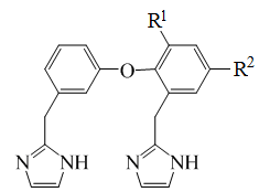 Lepidines general structure